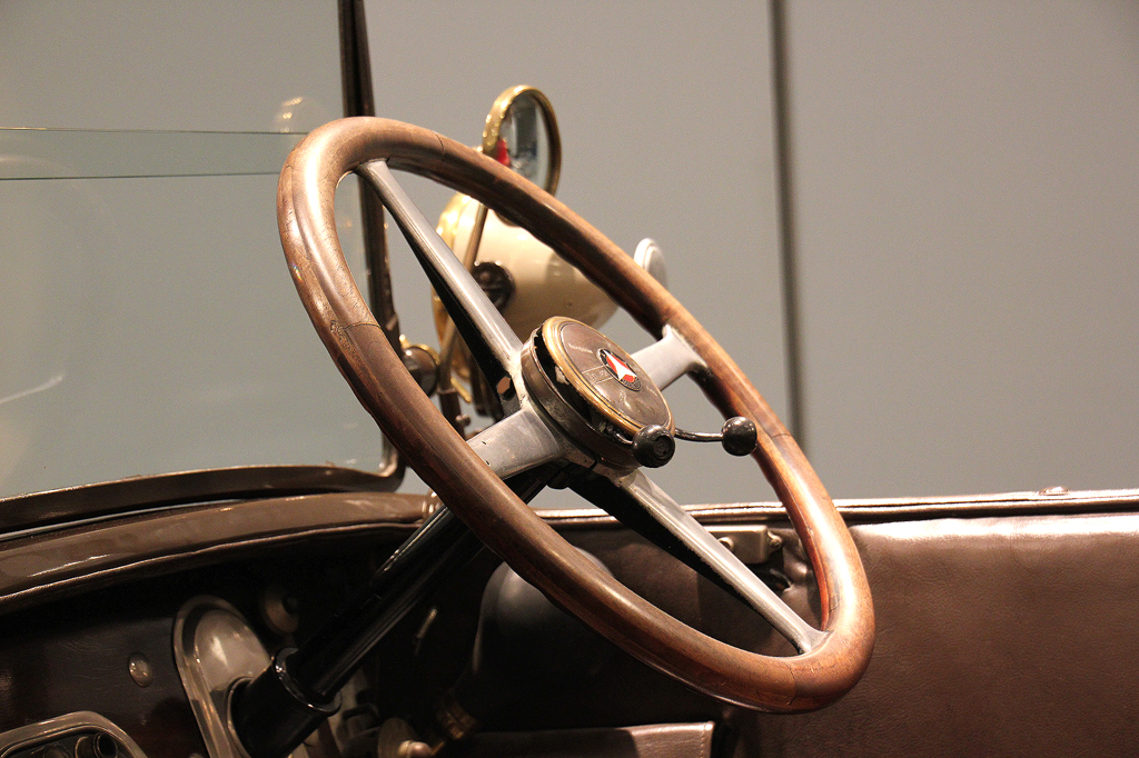 Visit at the Mercedes-Benz Museum, 09.04.2011